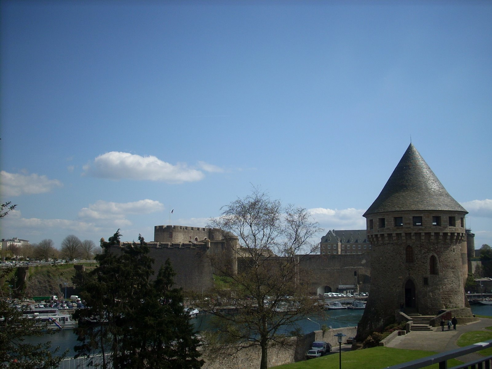 Brest, France : the Tanguy tower and behind it Brest's castle.